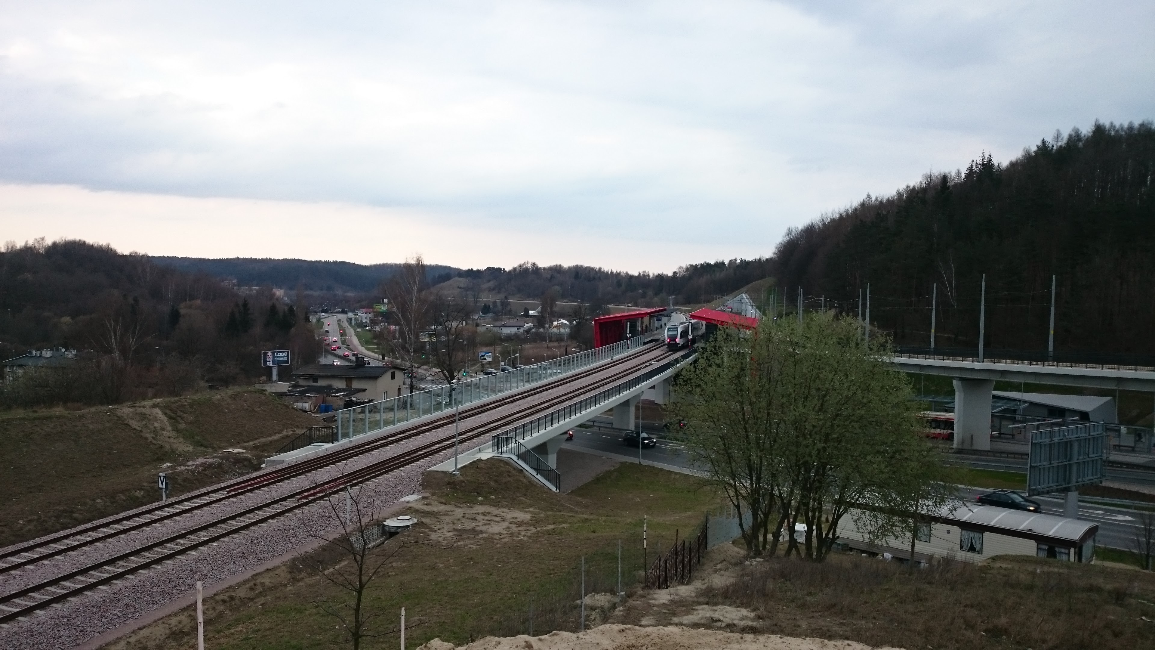 Pomorska Kolej Metropolitalna stop Gdańsk Brętowo with SA136 train at the platform. Rakoczego Street below.